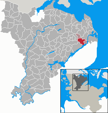 This map shows the area of the Gemeinde (municipality) Rabenkirchen-Faulück in the Kreis (district) Schleswig-Flensburg, Schleswig-Holstein, Germany.